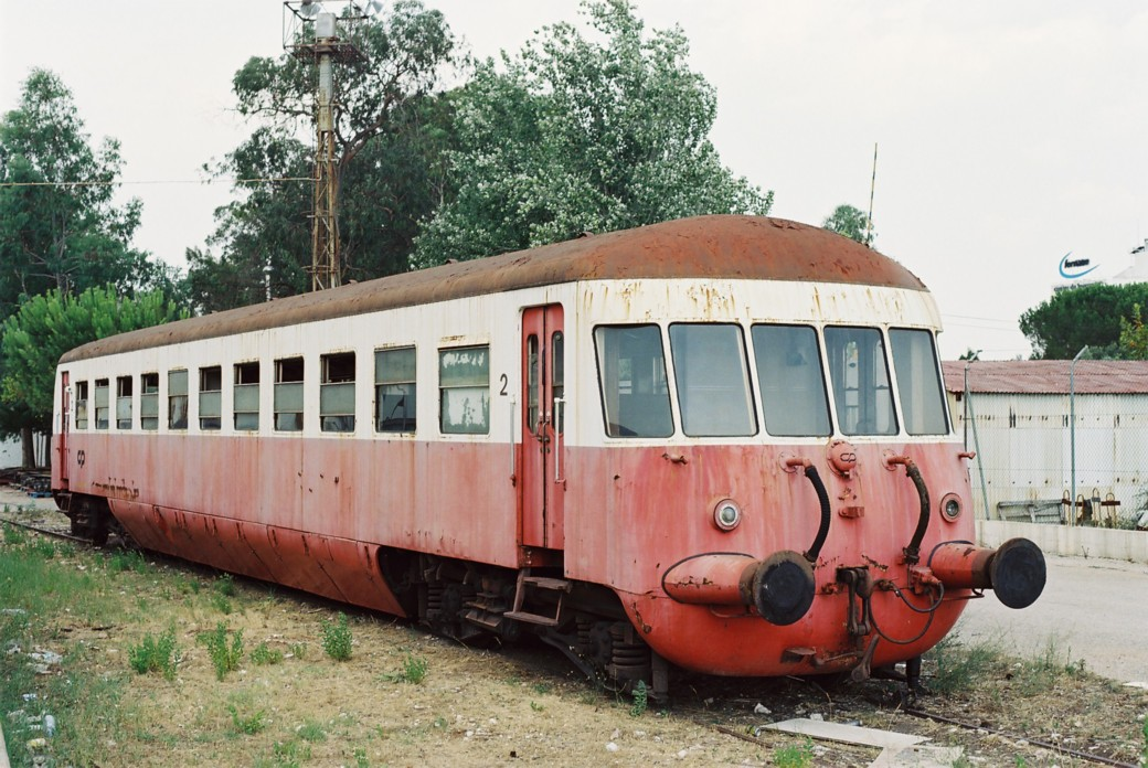 Wreck of railcar CP 0305 in Entroncamento in 2003.